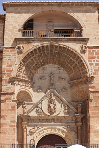 Ref: PM_100285_E_Manzanares.jpg; Manzanares; Templo de la Asunción; Castilla-la Mancha, Ciudad Real; Spain; Pórtico meridional; Cultural heritage; Europe/Spain/Manzanares; photo: Paul M.R.Maeyaert; © Paul M.R. Maeyaert